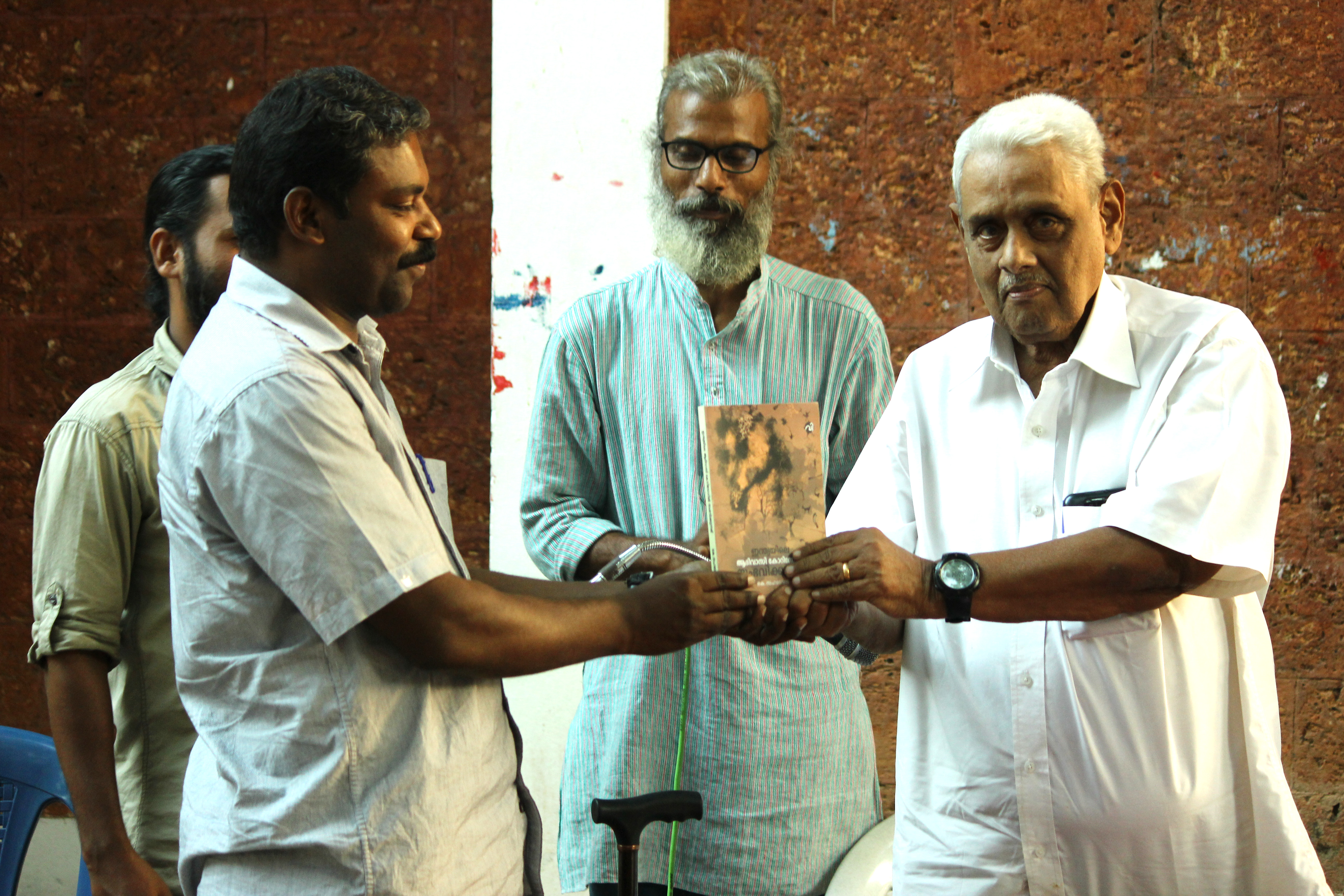 കെ സഹദേവന്‍ രചിച്ച ഇന്ത്യയിലെ ആദിവാസി കോറിഡോറില്‍ സംഭവിക്കുന്നത്‌ എന്ന പുസ്തകത്തിന്റെ പ്രകാശനം